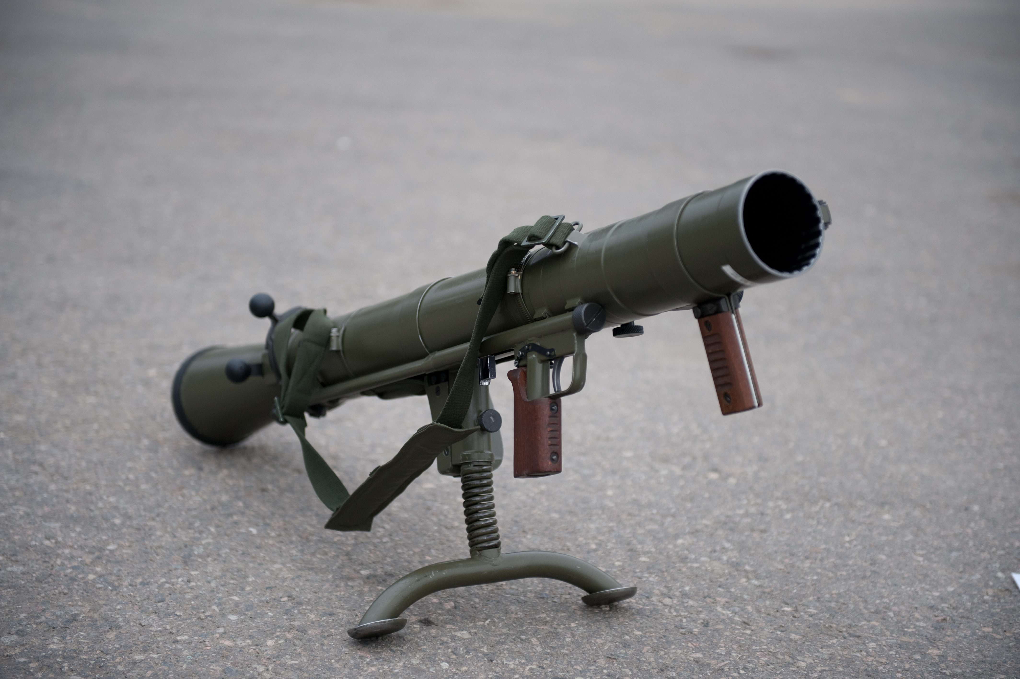 Carl Gustav recoilless rifle of the Norwegian Army.